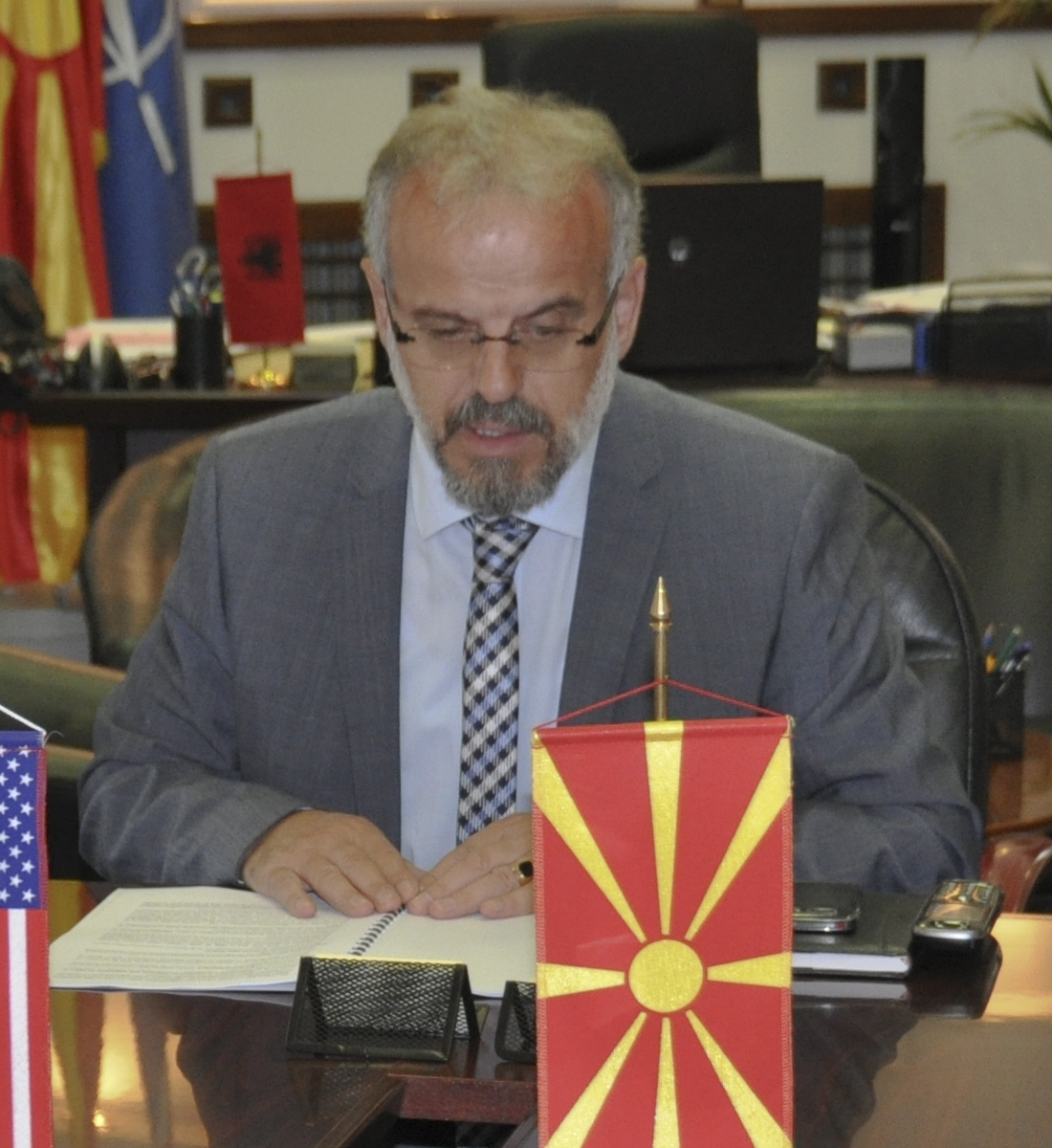 U.S. Air Force Maj. Gen. Steven Cray, the adjutant general of the Vermont National Guard, and U.S. Ambassador Paul Wholers meet with Talat Xhaferi, the Macedonian minister of defense, to discuss the possibility of engaging with Vermont and Senegal in tri-lateral events in Skopje, Macedonia, Sept. 12, 2013. Members of the Vermont National Guard traveled to Macedonia to meet with top Macedonian leaders to discuss the future of the State Partnership Program. (U.S. Air National Guard photo by Capt. Dyana Allen)